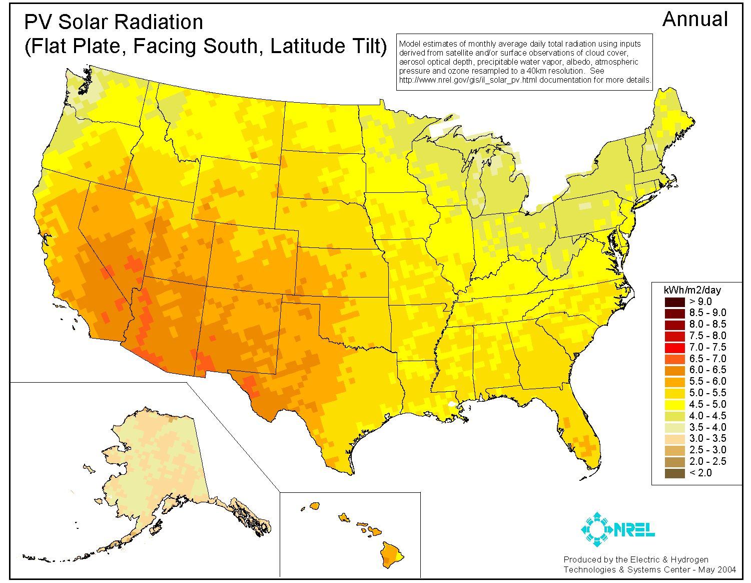 Annual PV Solar Radiation (Flat Plate, Facing South, Latitude Tilt)